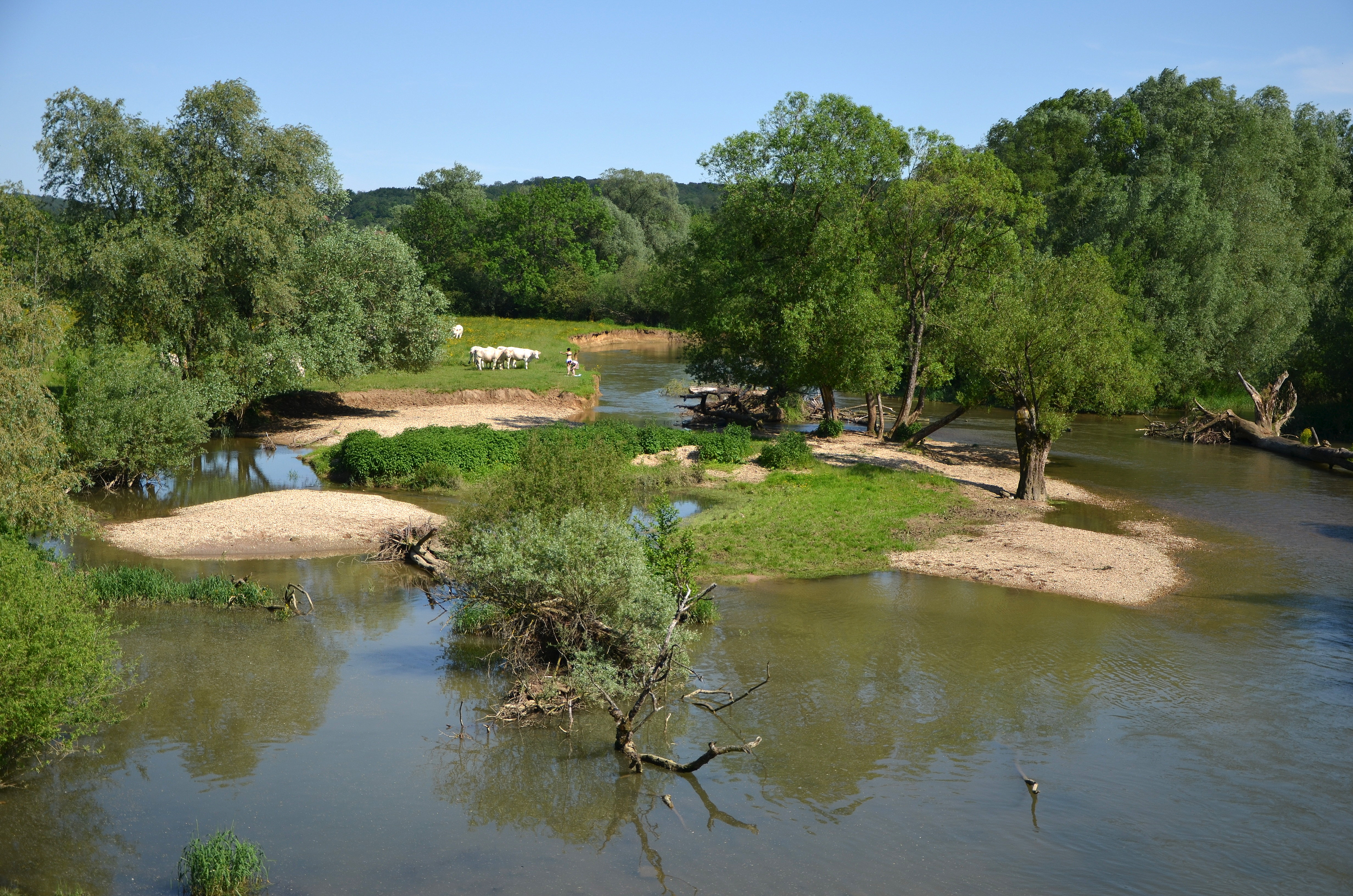 The river Allan near Fesches le Chatel, Doubs, France